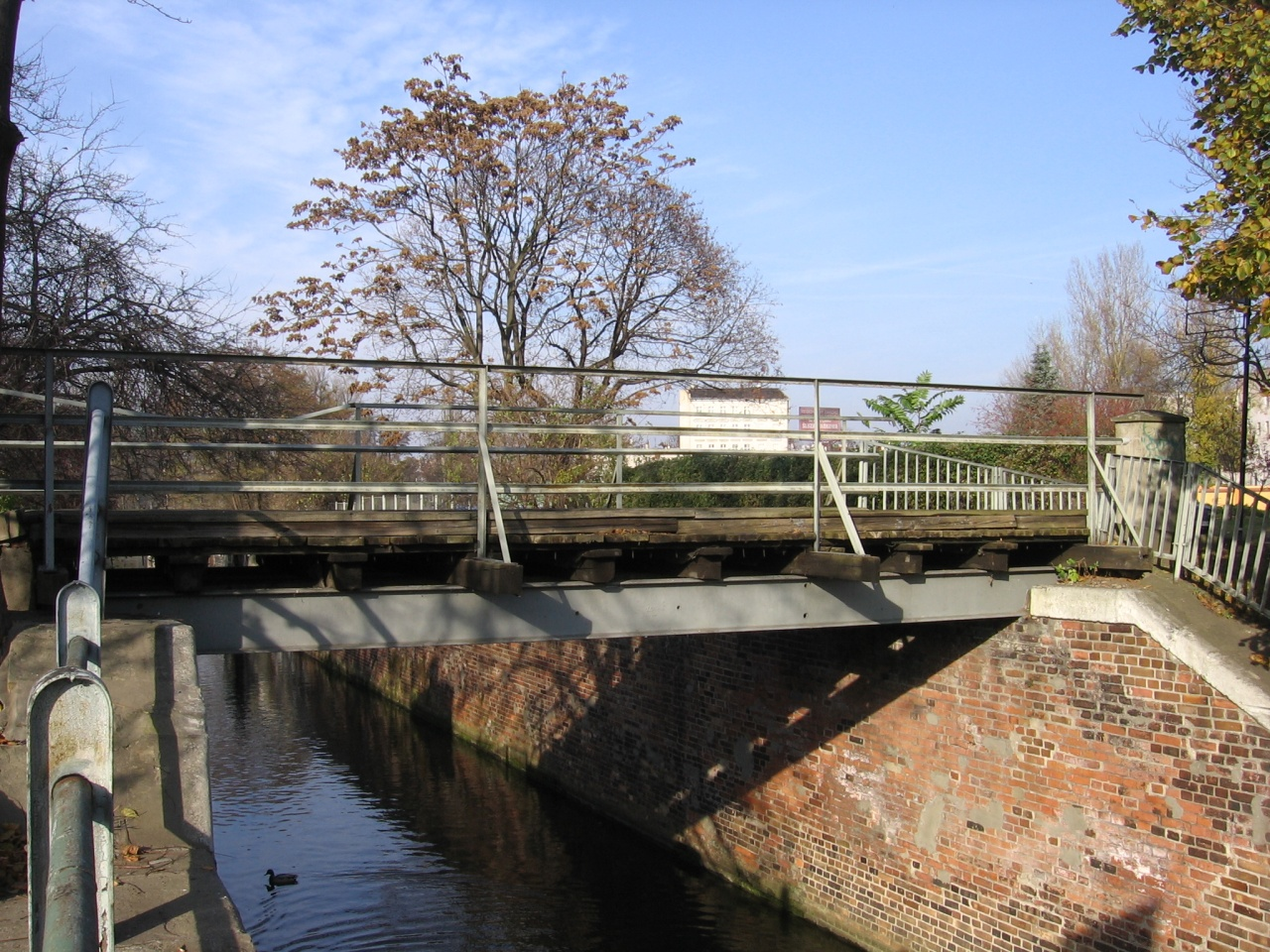 Wrocław, Poland no-name bridge over "Sand Watergate" on Sand Island, Wodna Street